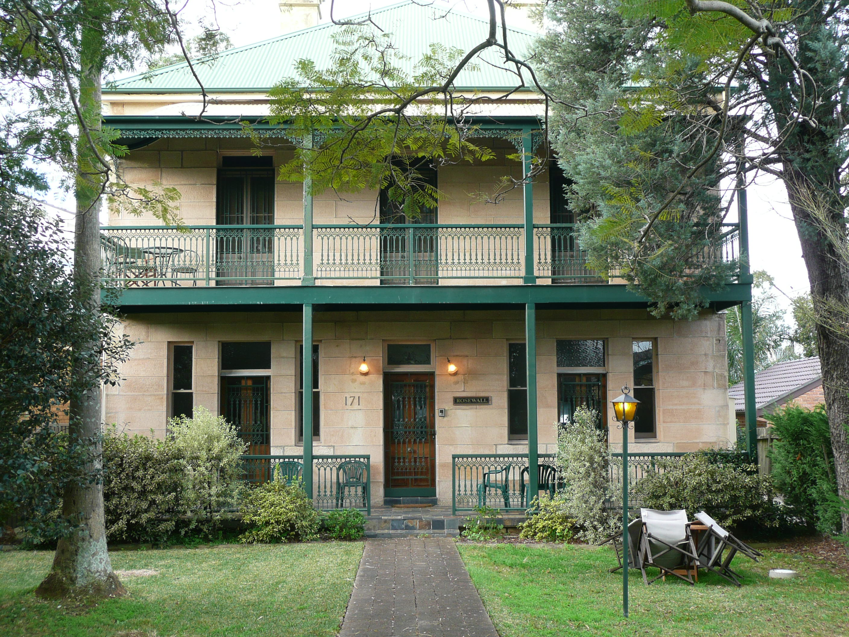 Rosewall, High Street, North Willoughby, Sydney